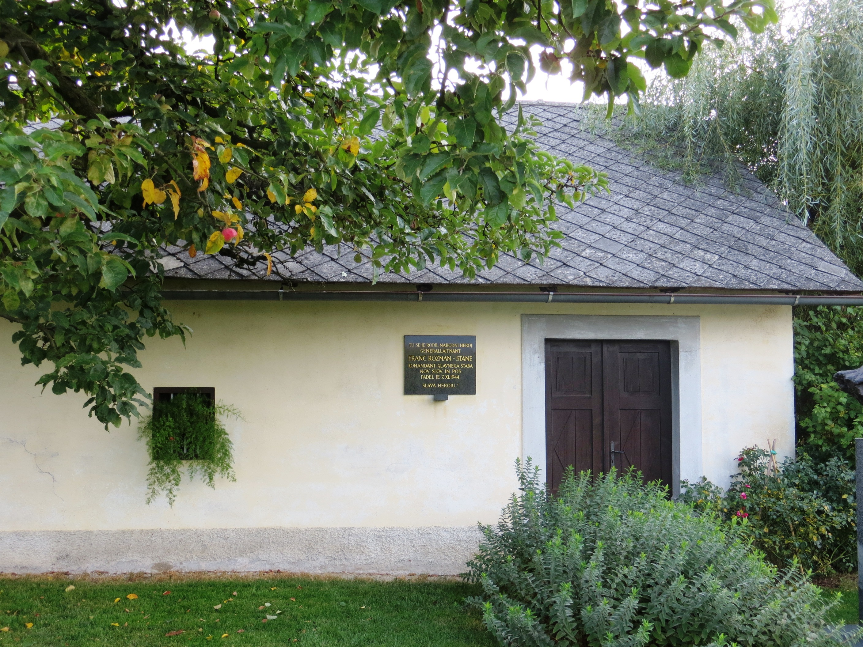 House where Franc Rozman (1911–1944) was born in Spodnje Pirniče, Municipality of Medvode, Slovenia